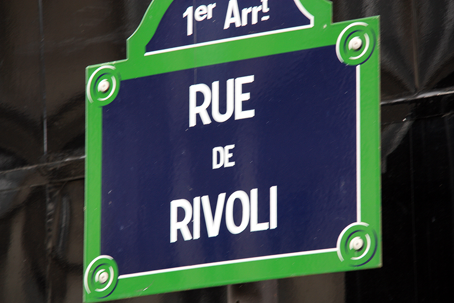 street plate